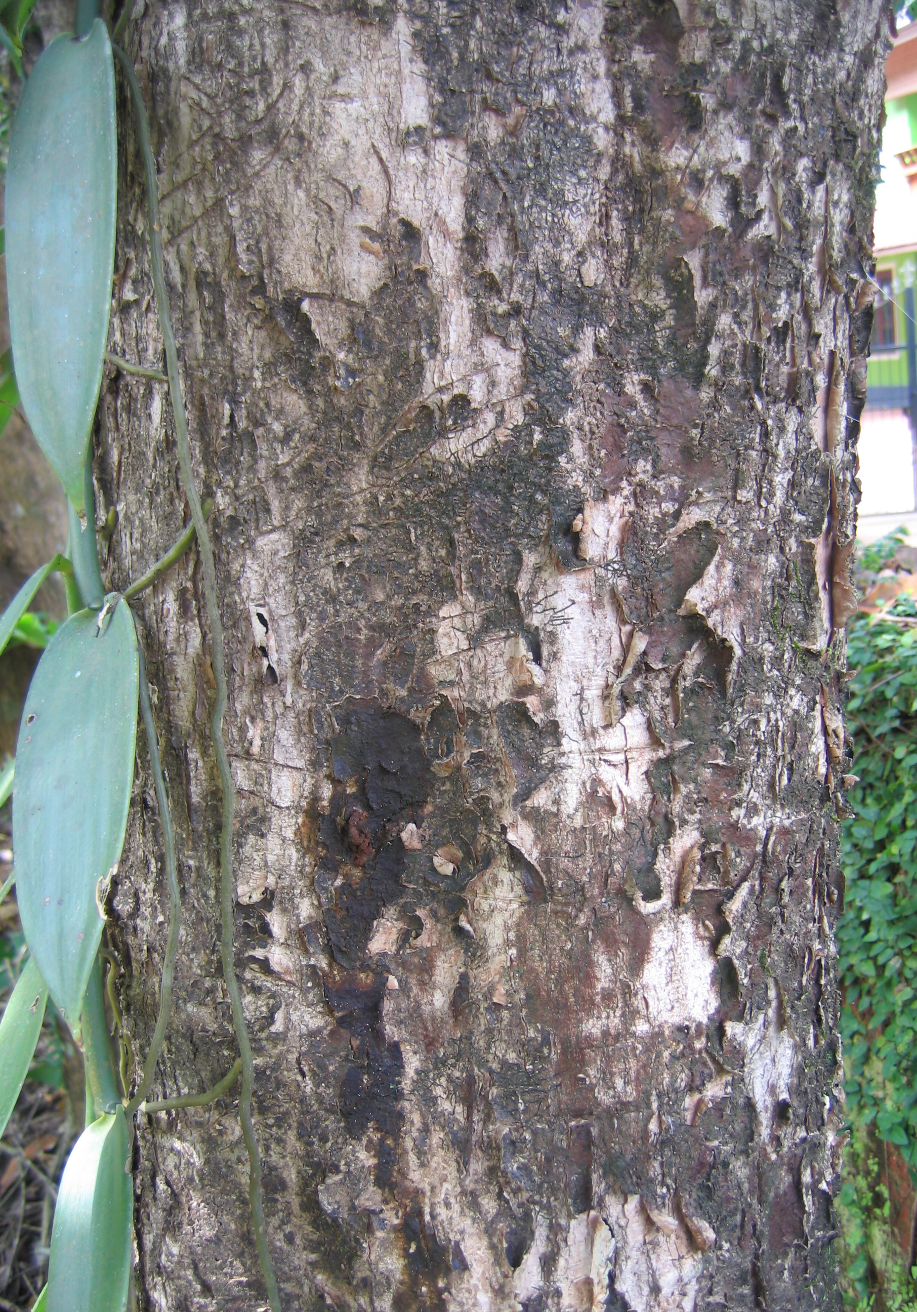 Syzygium cumini bark - Leaves of a climbed vanilla too can be seen.